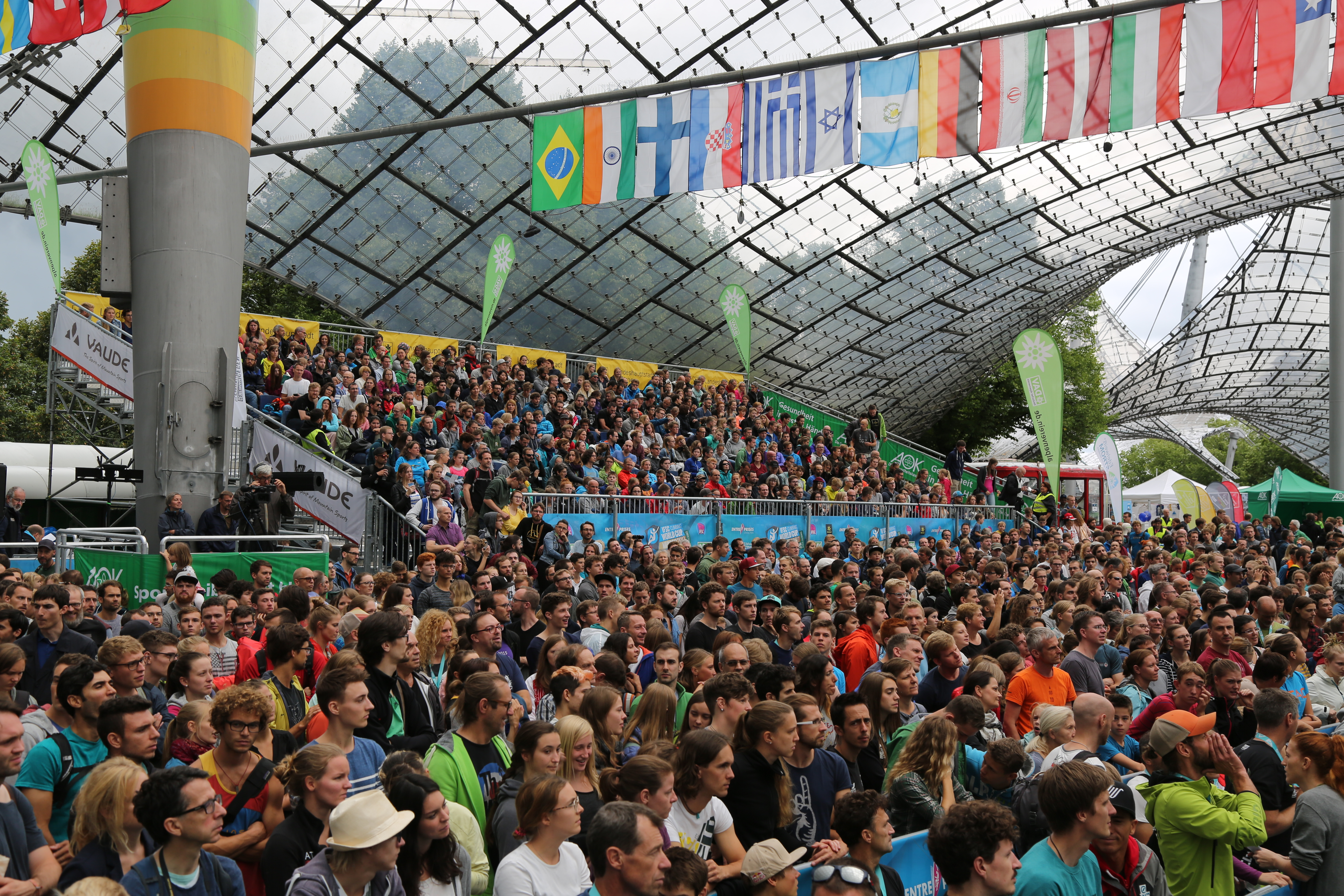 Boulder Worldcup 2017 in Munich, Germany